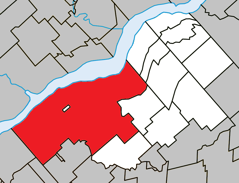 Location of Bécancour, Quebec within Bécancour Regional County Municipality.